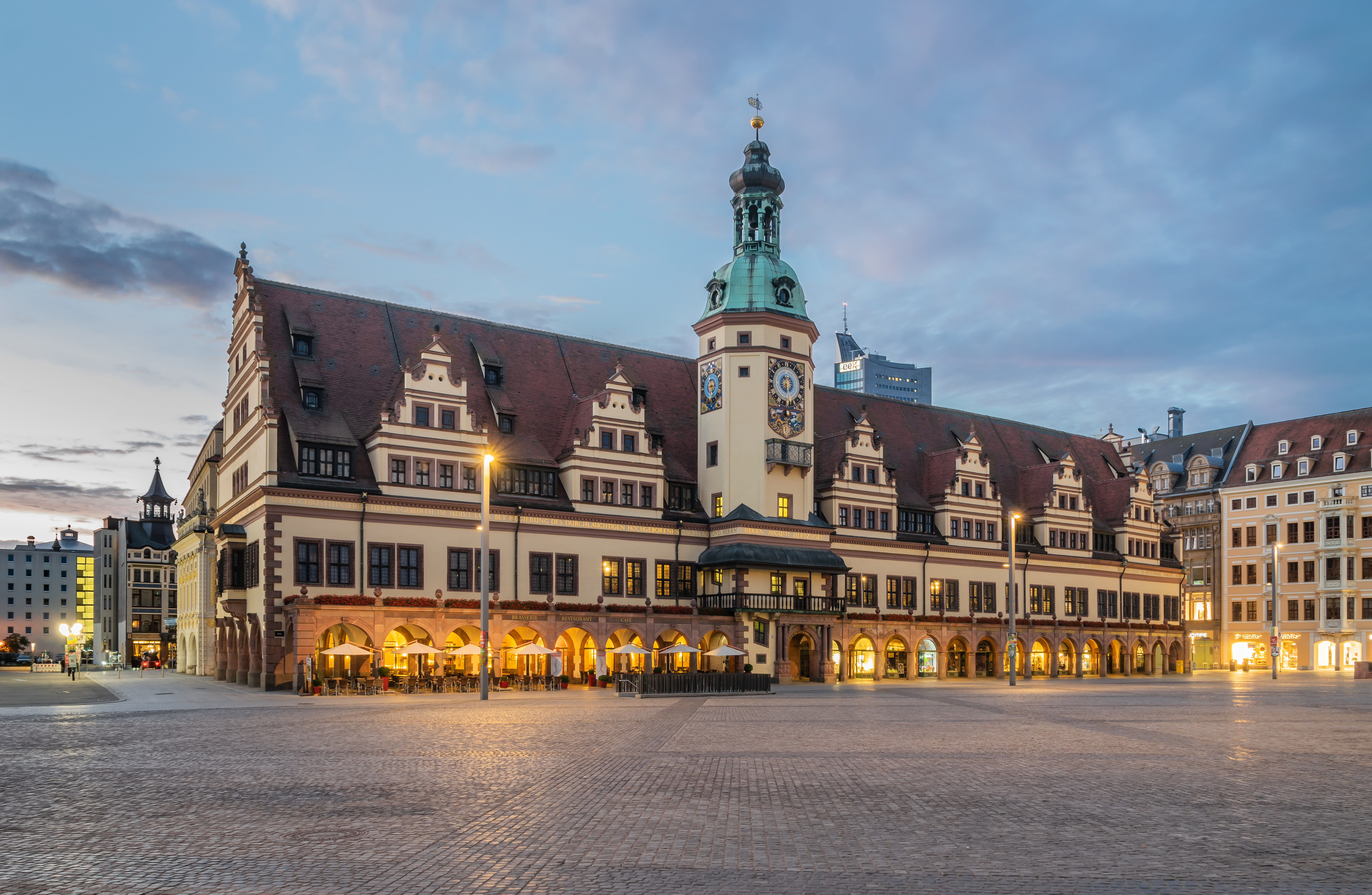 Old city hall of Leipzig, Saxony, Germany